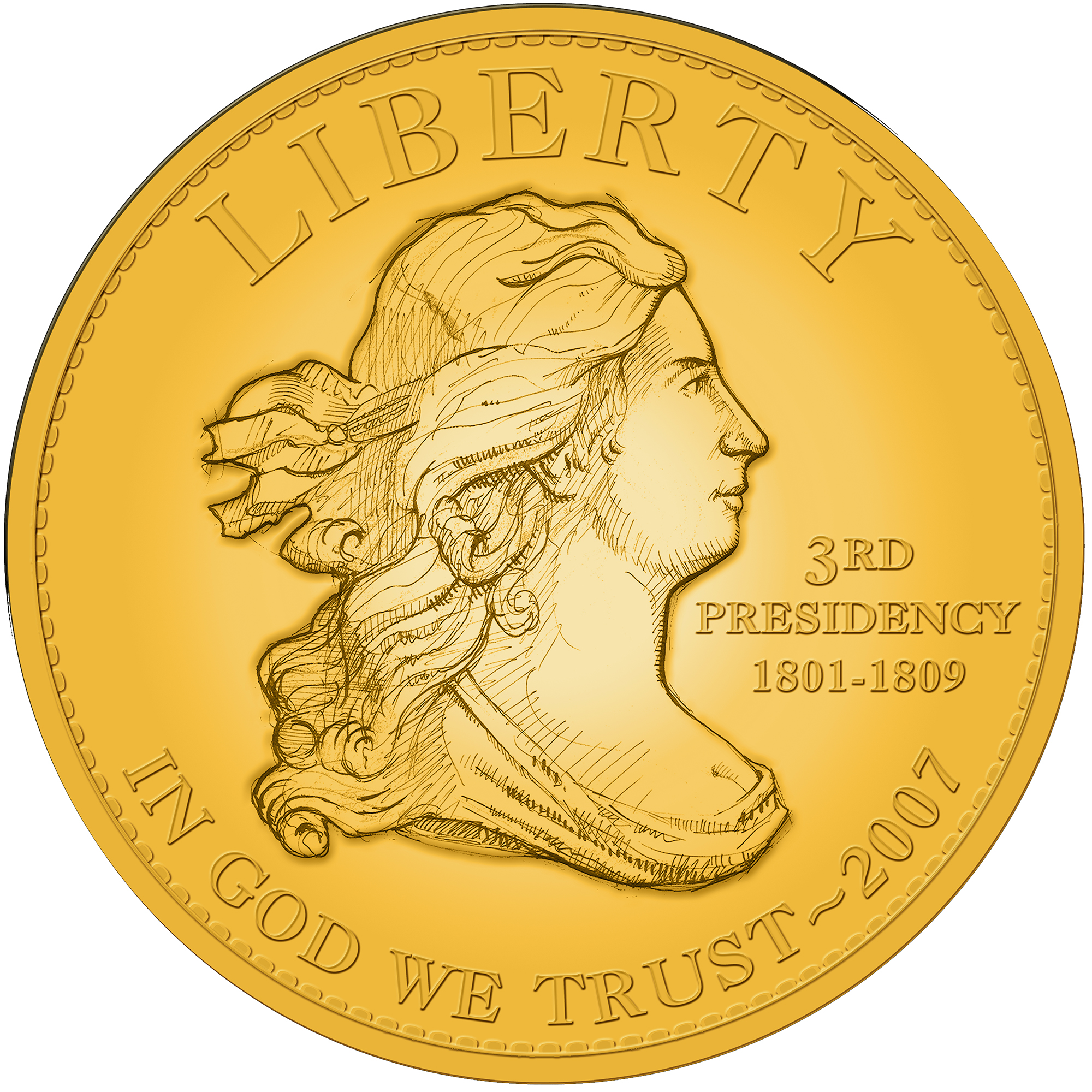 First Spouse Program coin for Thomas Jefferson, who was a widower during his term of office and thus had no First Lady. Obverse.